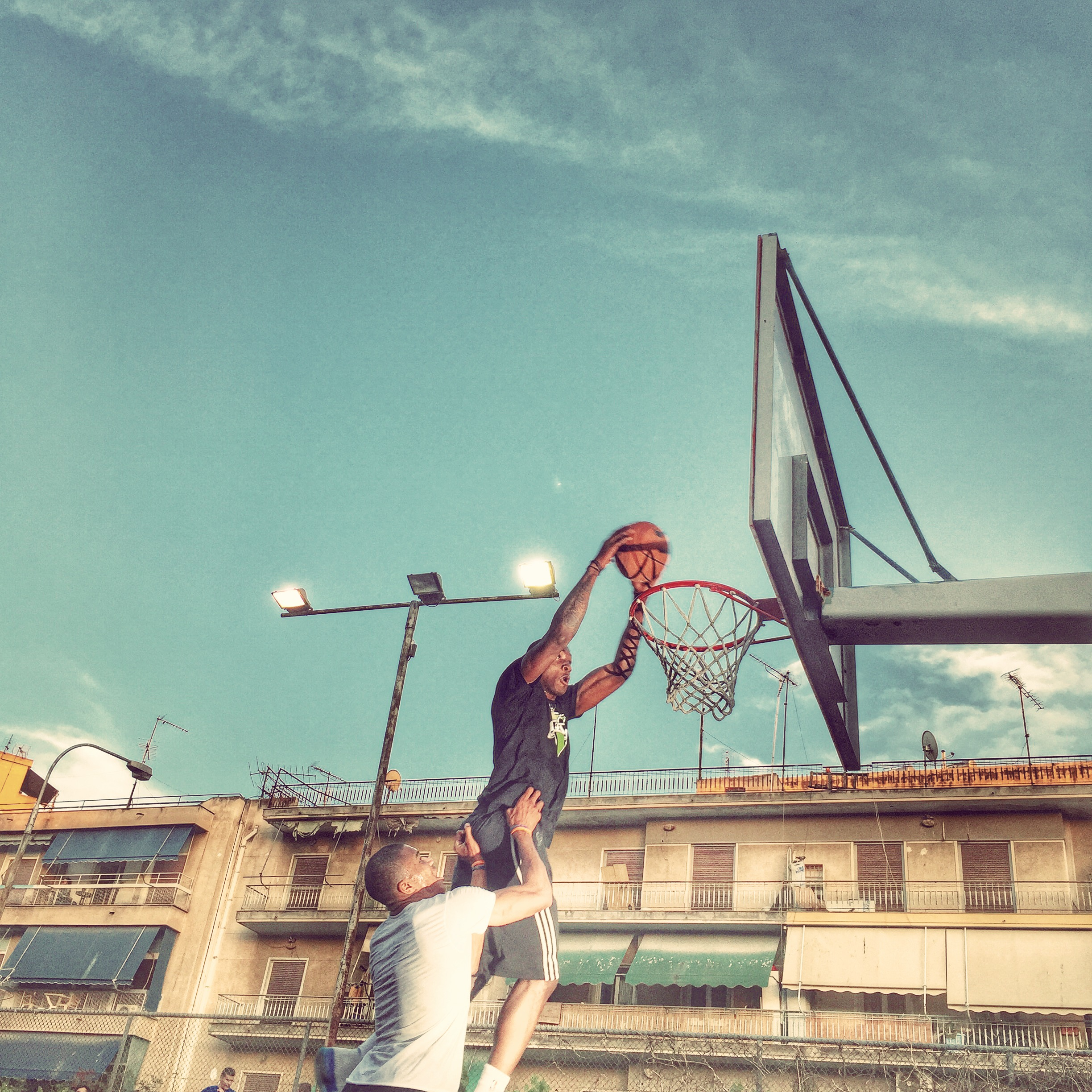 Thanasis and Giannis Antetokounmpo at Sepolia, Greece, during a street basketball game